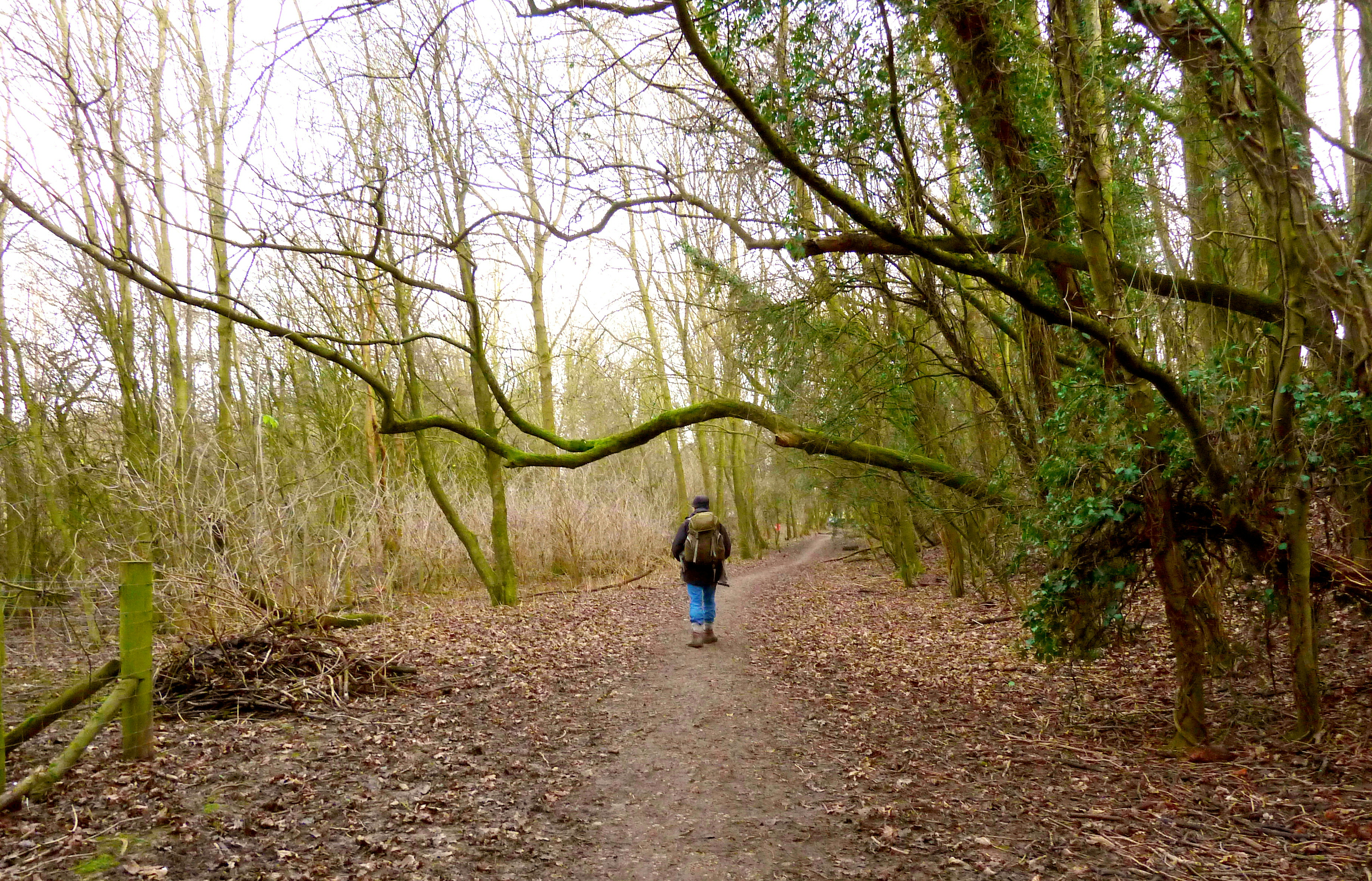 Quarry Moor, a Site of Special Scientific Interest, nature reserve and public amenity. It is situated at the south edge of Ripon, North Yorkshire, England. It has cliffs of Magnesian Limestone, exposed by past quarrying, and protected calcareous grassland on which diverse wild flowers grow, besides some rare plants. Showing woodland path.